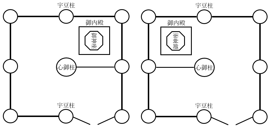 Difference of internal structure in Taisha